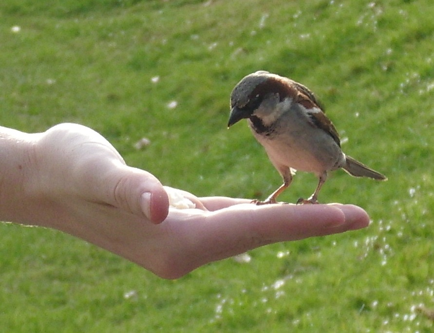 A male House Sparrow (Passer domesticus) feeding from a person's hand. By the fountain at Albert Park - the sparrows here seem to be pretty bold. (The grass in the background has daisies in flower, hence the white spots.)